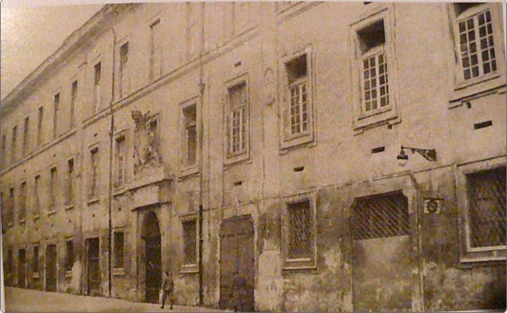 Fassade of the Ospedale di San Carlo in Rome along Borgo Santo Spirito